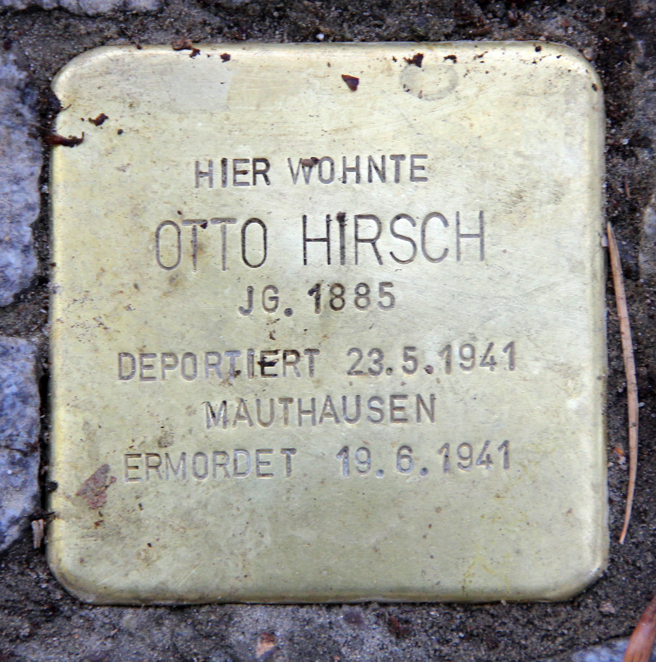 "Stolperstein" (stumbling block), Otto Hirsch, Koenigsallee 35, Berlin-Grunewald, Germany